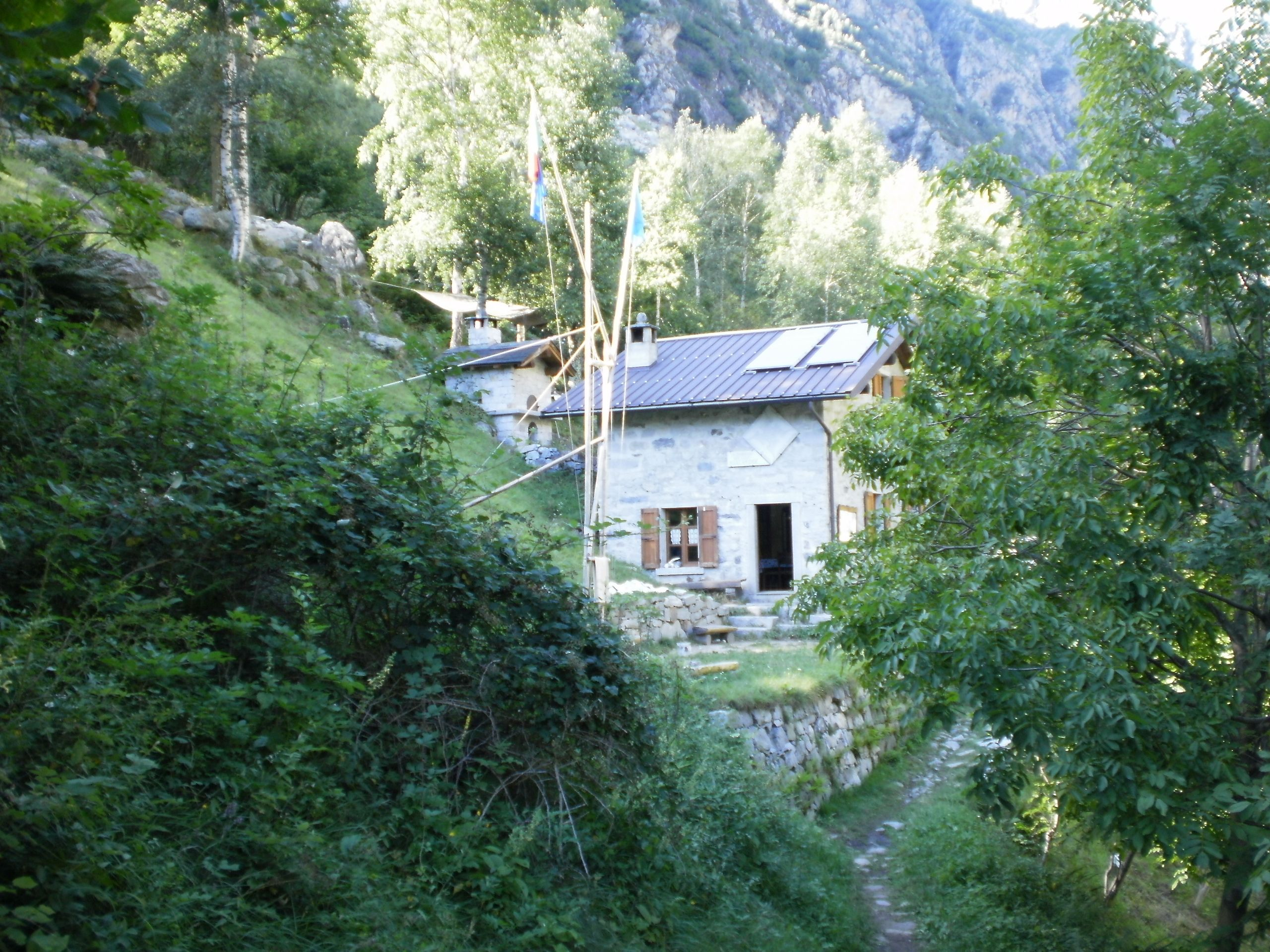 La Centralina, scout base in Codera (Novate Mezzola)